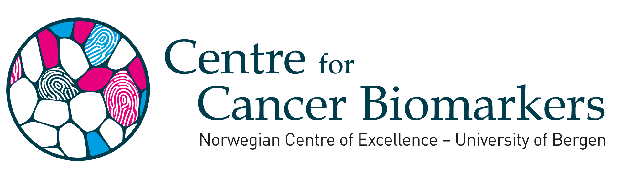 Logo for Centre for Cancer Biomarkers CCBIO